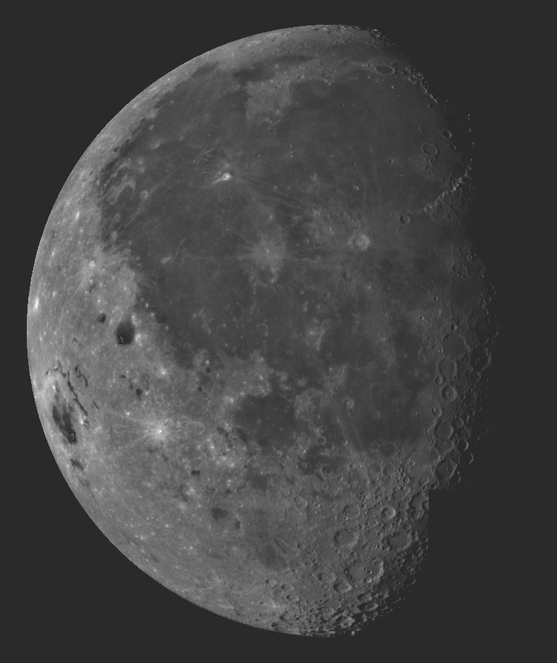 This is a cropped version of NASA image PIA00077. This picture of the Moon was taken by the Galileo spacecraft at 6:47 p.m. PST Dec.8, 1990 from a distance of almost 220,000 miles. It shows the dark Oceanus Procellarum in the upper center, with Mare Imbrium above it and the smaller circular Mare Humorum below. The Orientale Basin, with a small mare in its center, is on the lower left near the limb or edge. Between stretches the cratered highland terrain, with scattered bright young craters on highlands and maria alike.